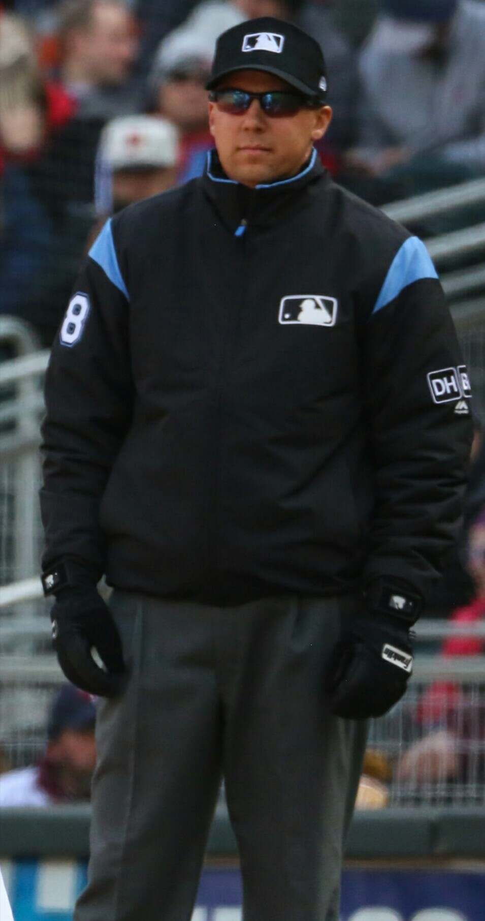 Umpire Adam Hamari in 2018